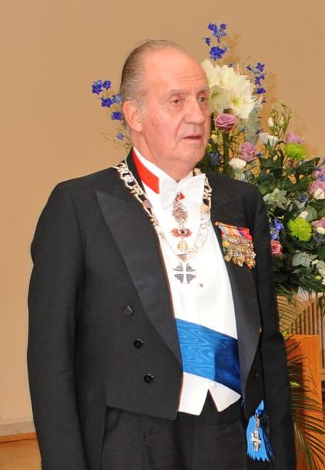 King Juan Carlos I with a Collar of the Order of the Cross of Terra Mariana. May 4th 2009. Spanish Royal Couple's Official Visit to Estonia